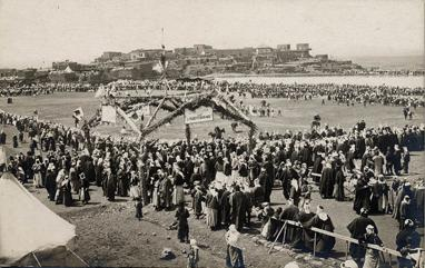 The Druze are granted autonomy in the region of Jabalu d-Duruz, from the League of Nations (early 1920s). Druze flags can be seen as well as signs saying " long live the independance" in both French and Arabic. In 1923 Captain Carbillet, the French, but Druze-elected, governor of Jabal ad-Duruz, introduced modern administrative and social reforms that antagonized the population. This eventually resulted in a full-fledged rebellion, led by Sultan al-Atrash, the Druze defeated the French in August and by September were joined by Syrian nationalists. The French later bombed damascus killing 5,000 people.